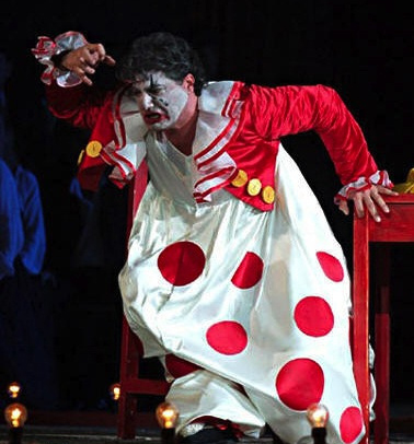 José Cura in Pagliacci 2006-detail